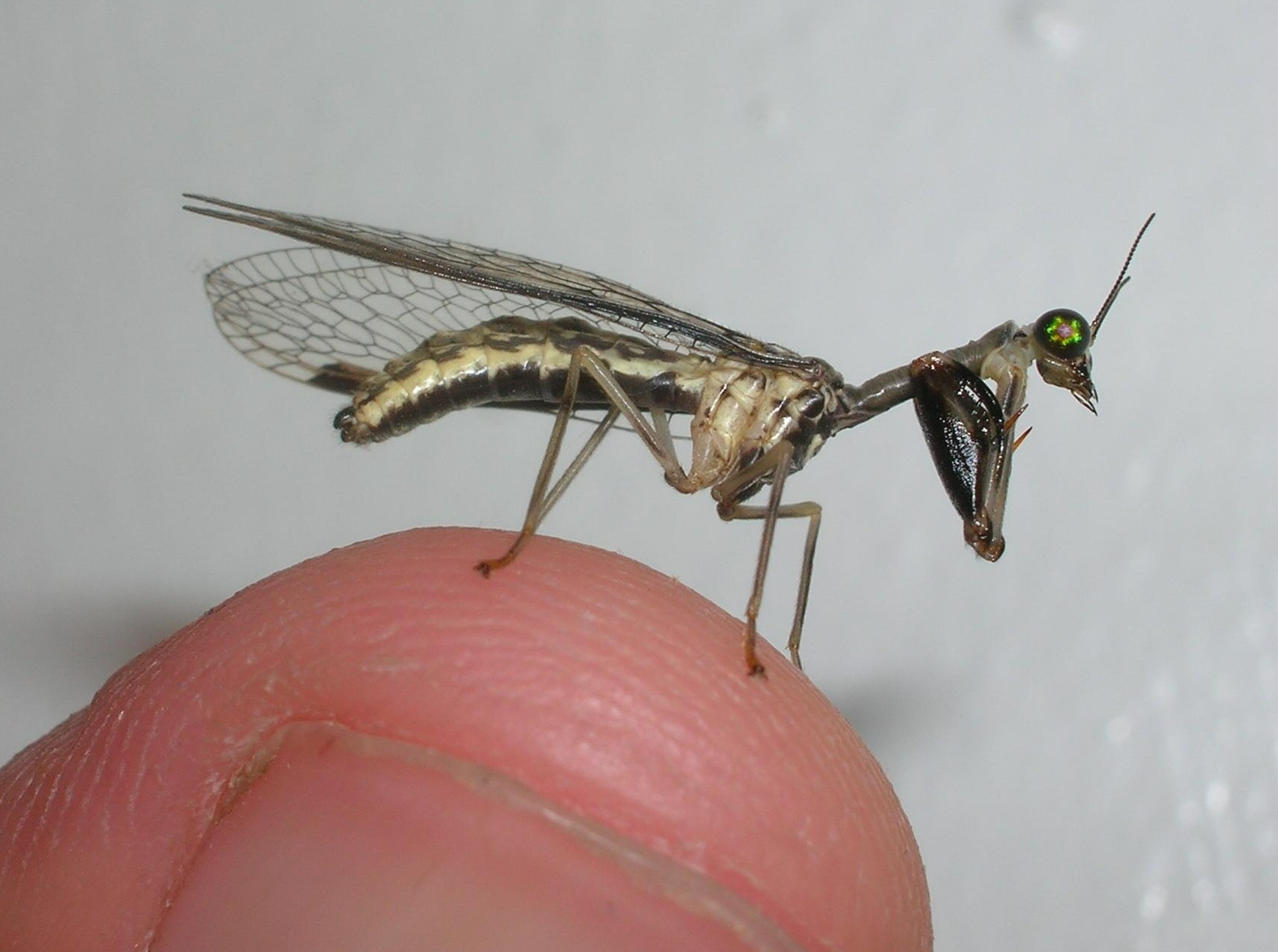 Mantidfly (Mantispidae) Order: Neuroptera photo by: James C. Spetz (taken on 7/23/07 in Lakewood, OH) BugGuide Mantidfly